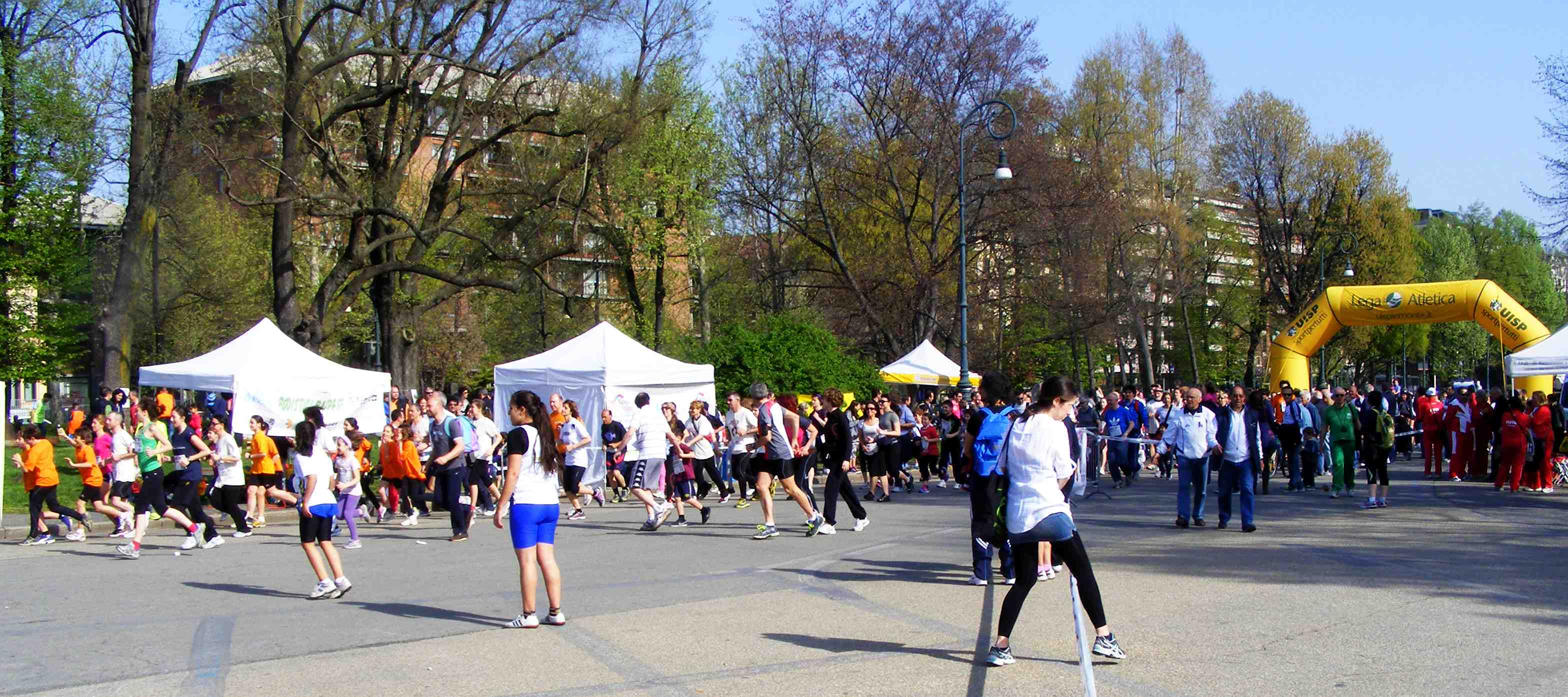 Vivicittà 2014: Torino, parco del Valentino, non-competitive race